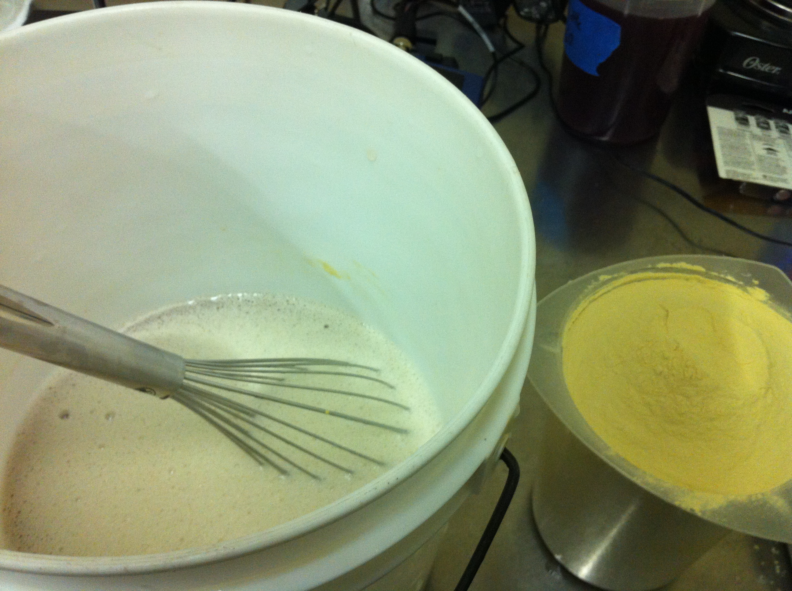 Ferm O wine yeast nutrient made of dead yeast hulls (ghost) and no DAP being prepared with distilled water